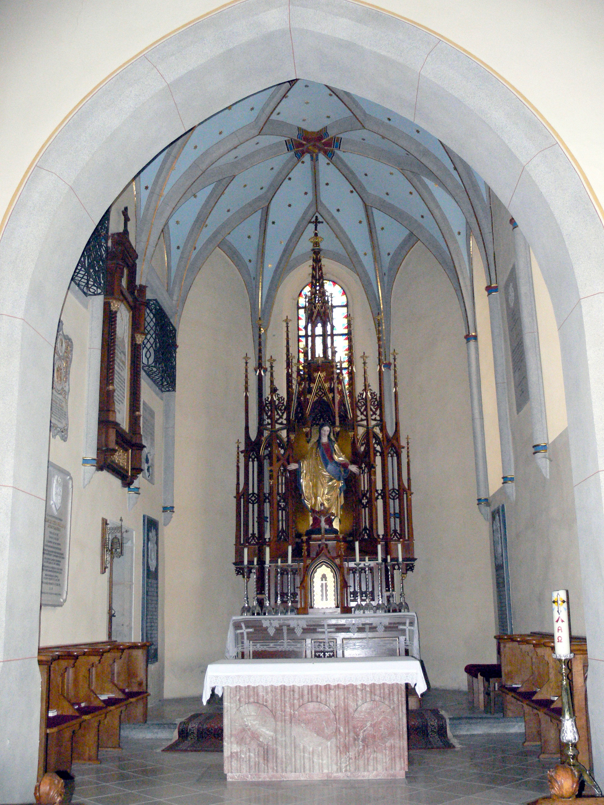 Schlägl. Cemetery church Maria Anger. Interior